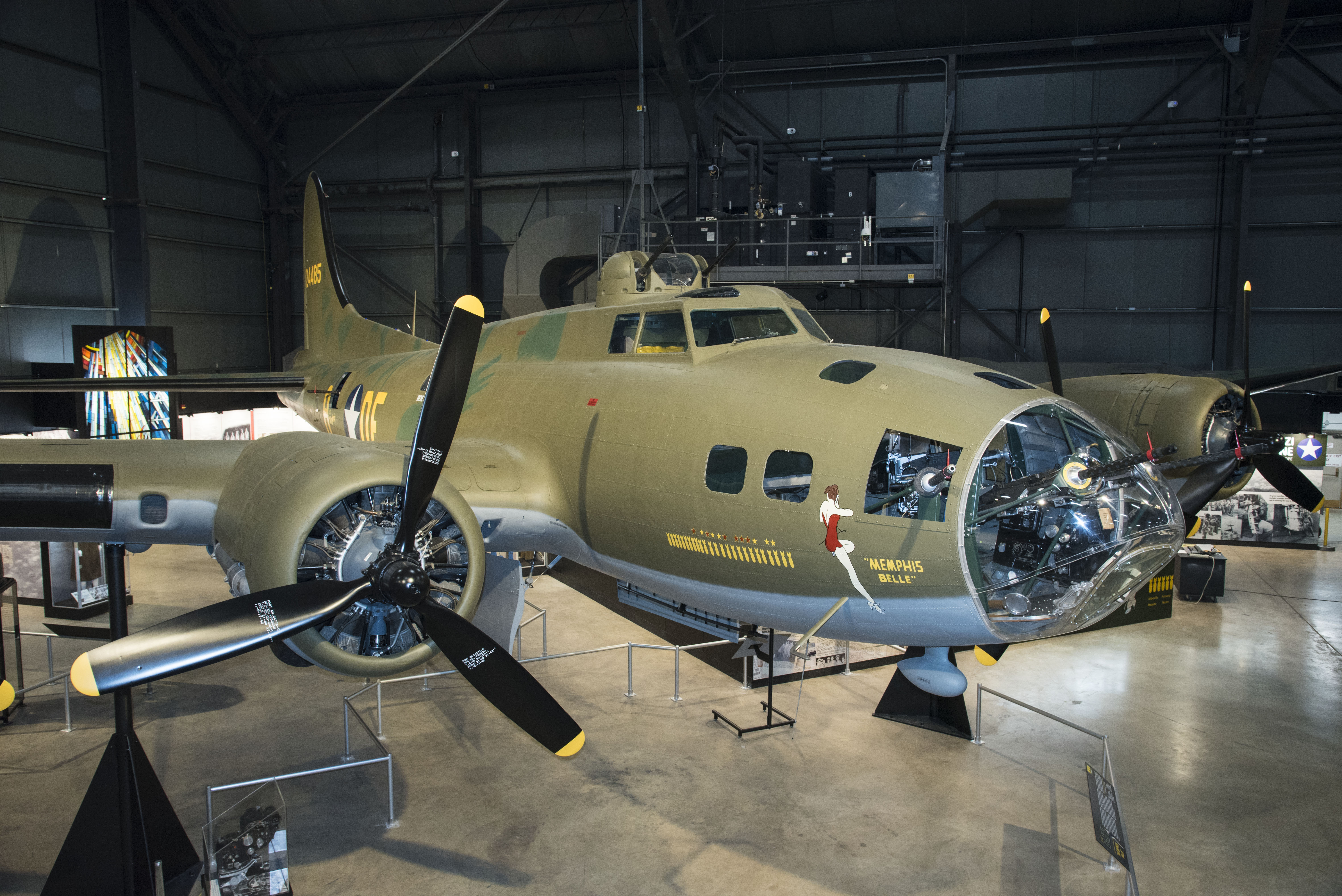 Boeing B-17F Memphis Belle on display in the WWII Gallery at the National Museum of the United States Air Force. B-17's flew in every combat zone during World War II, but its most significant service was over Europe. Along with the B-24 Liberator, the B-17 formed the backbone of the USAAF strategic bombing force, and it helped win the war by crippling Germany’s war industry. (U.S. Air Force photo by Ken LaRock) (This is in Public Domain)